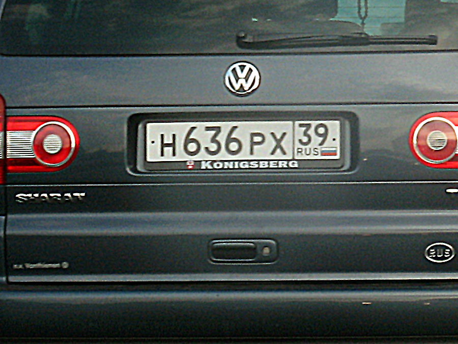 (Unofficial) "Königsberg" frame on a Russian car license plate of Kaliningrad